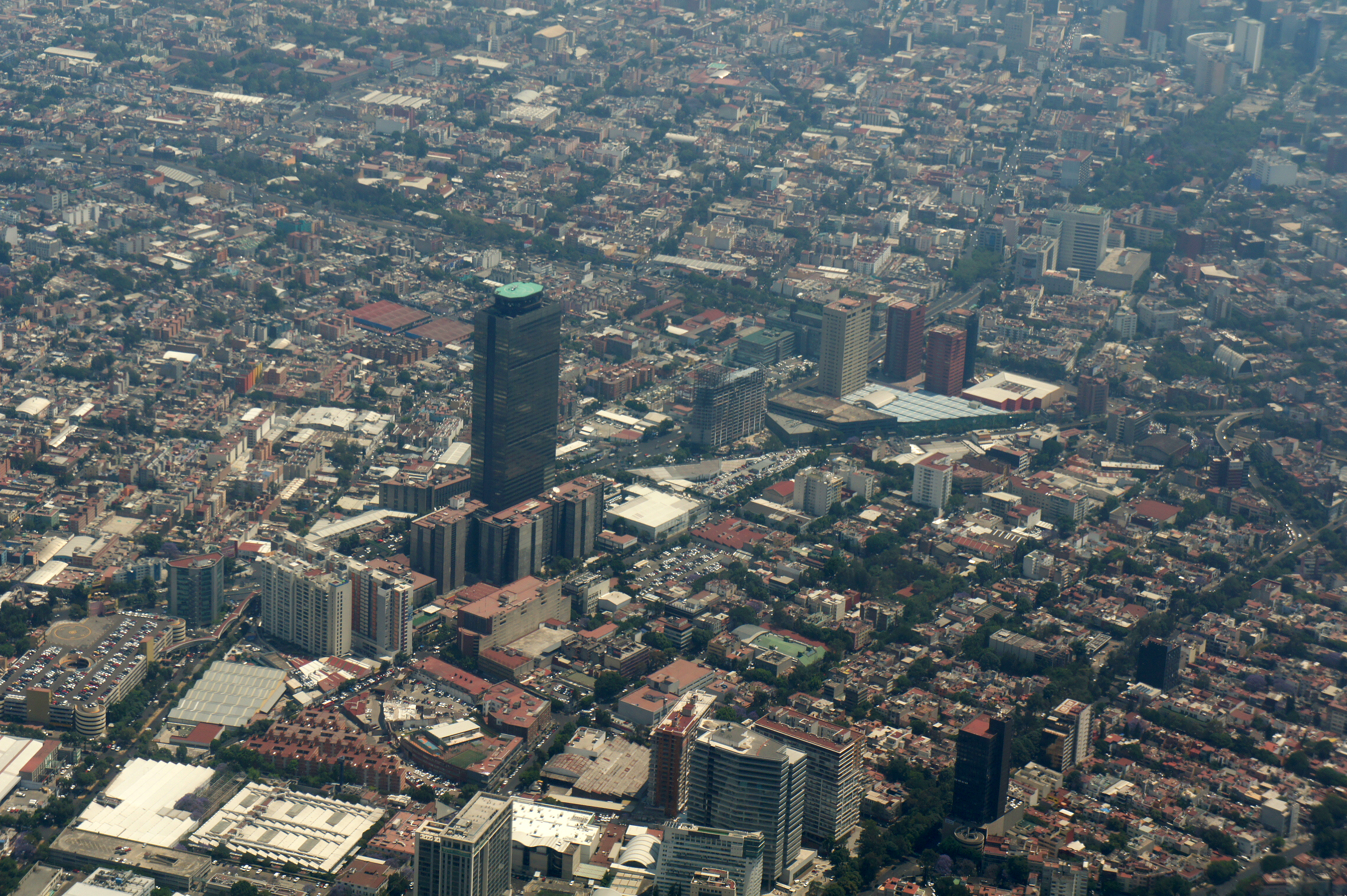 Aerial view of Pemex Tower, Mexico DF